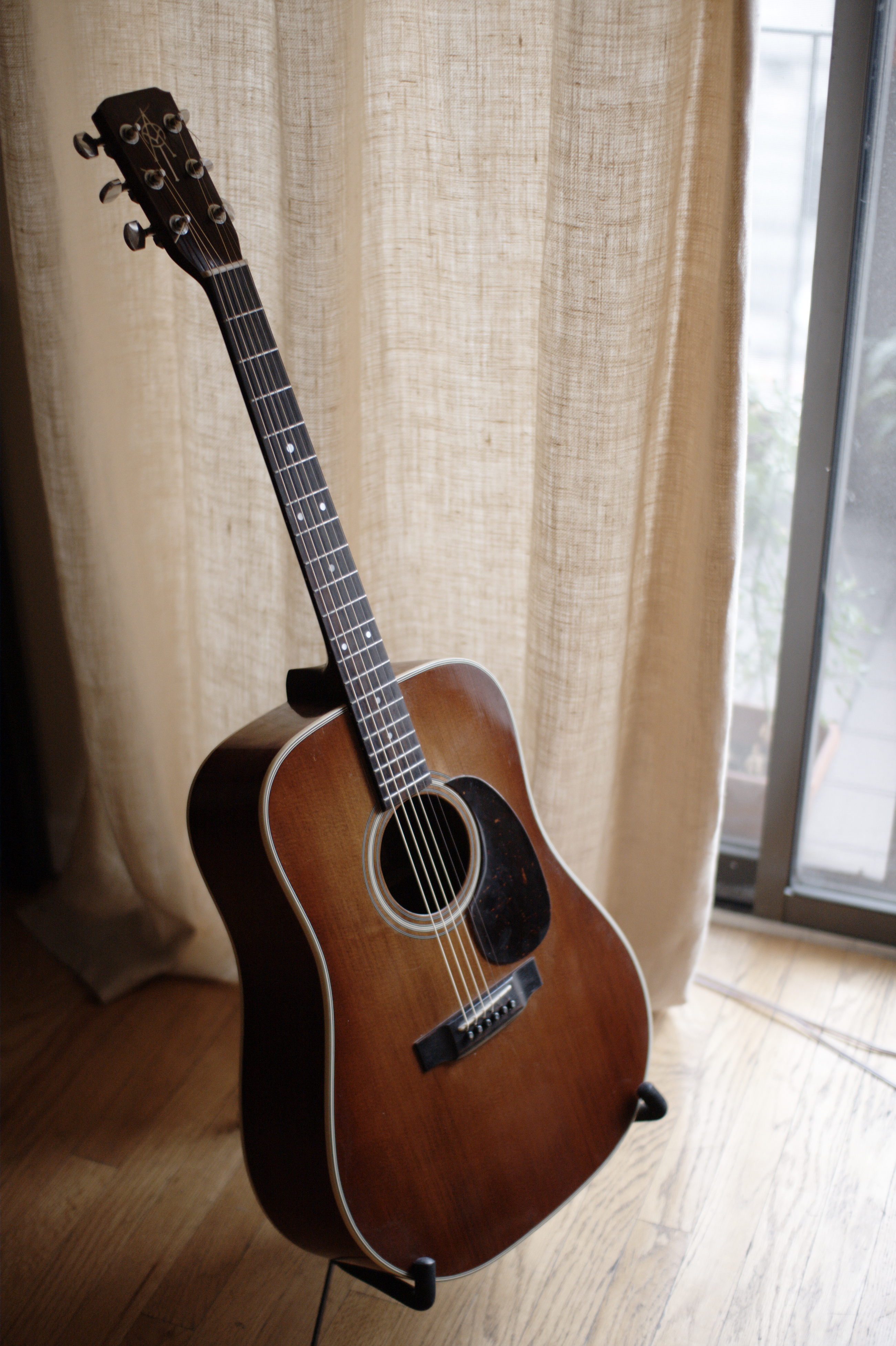 Alvarez-Yairi DY55 (1979) review posted here